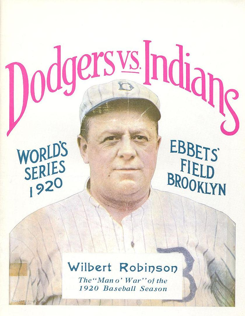 The cover of a program from the 1920 World Series.